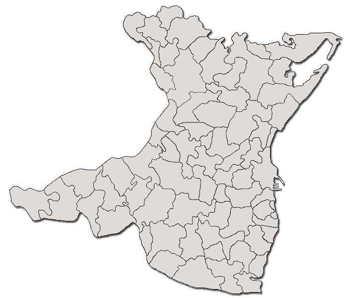 Location map of Constanţa County Romania